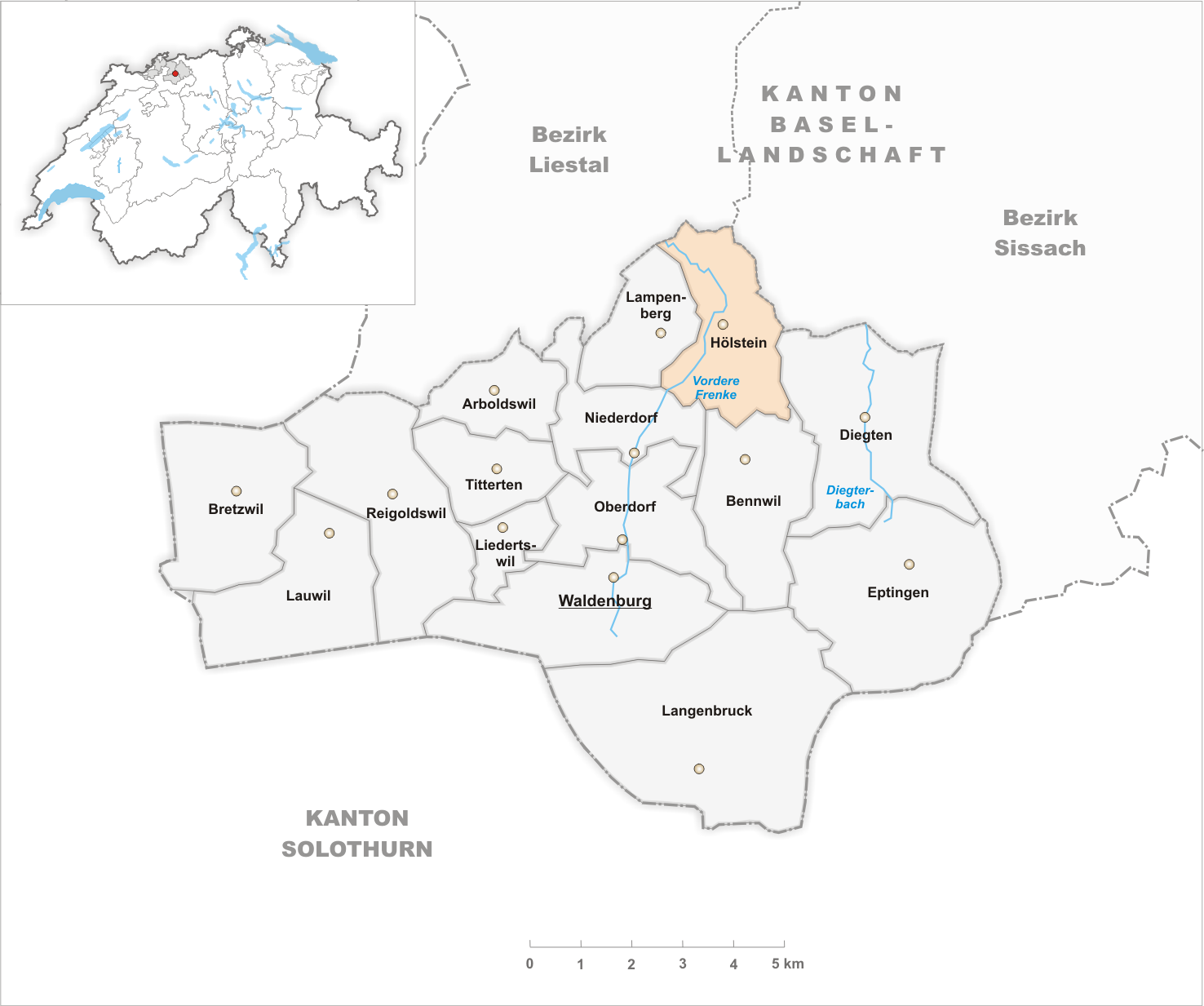 Municipality Hölstein